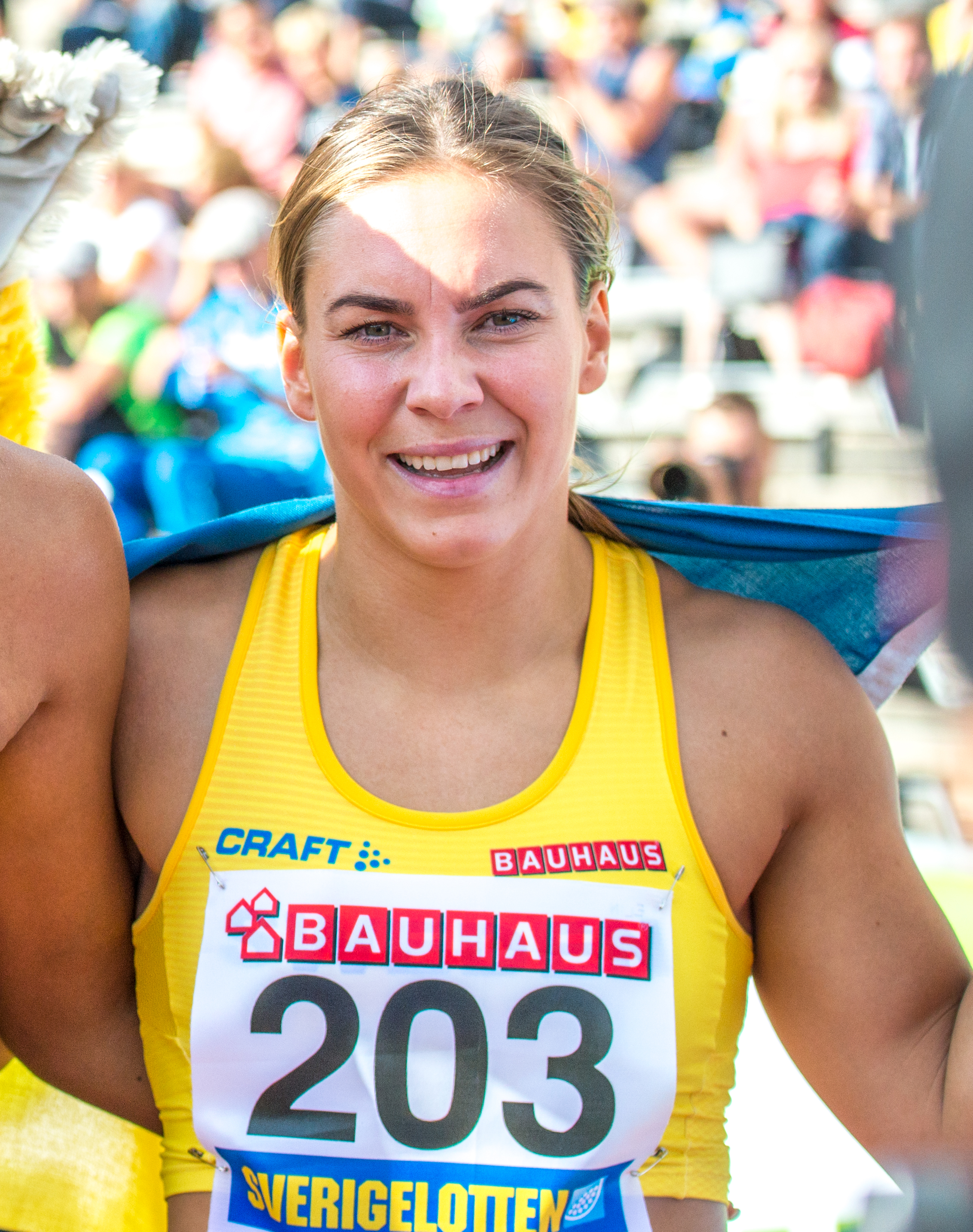 Elin Östlund during the Finland-Sweden athletics international 2019 at the Stockholm Stadium in August 2019.